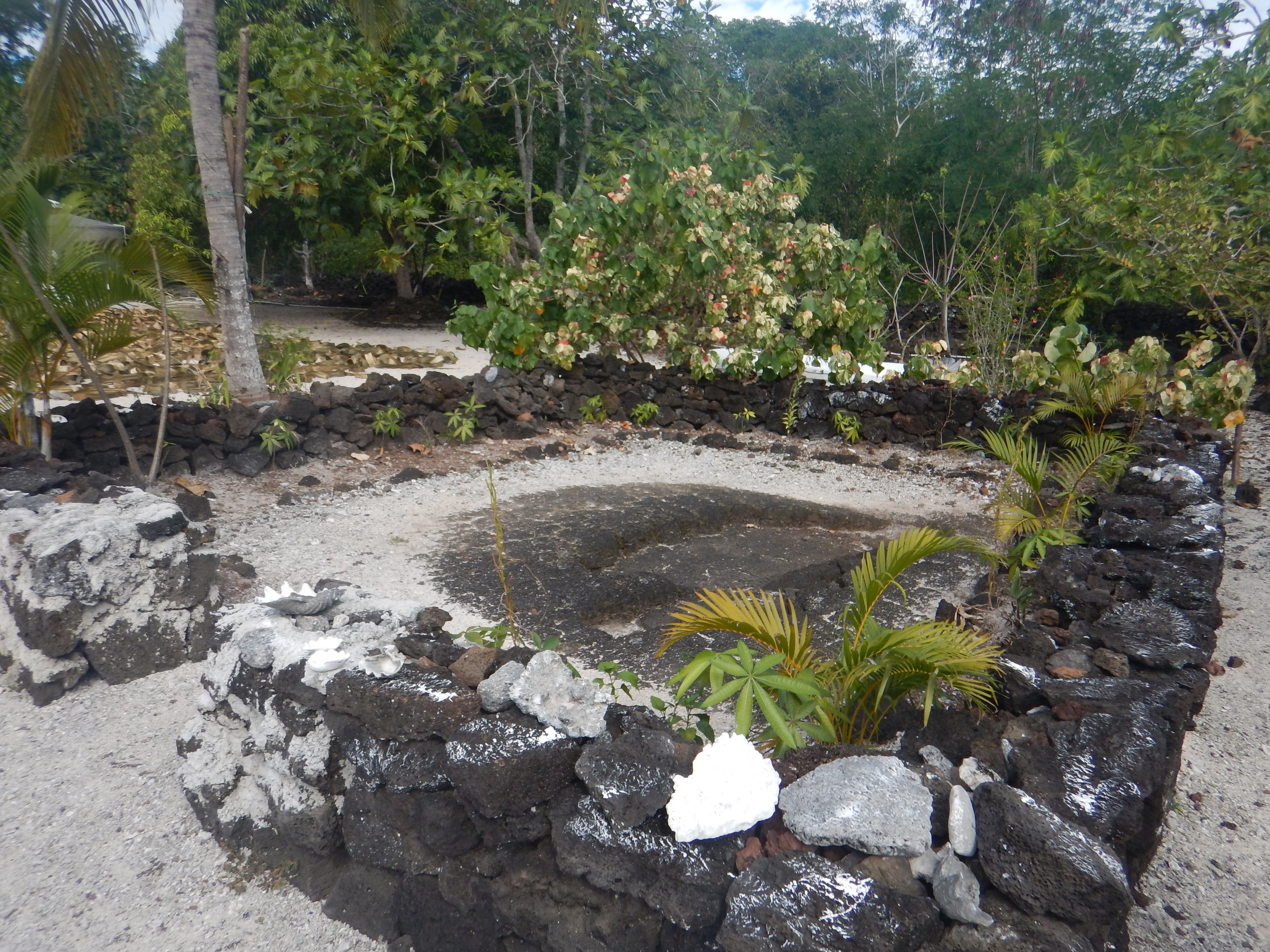 According to legend this rock formation is the footprint of a giant called Moso who stepped from Samoa to Fiji.